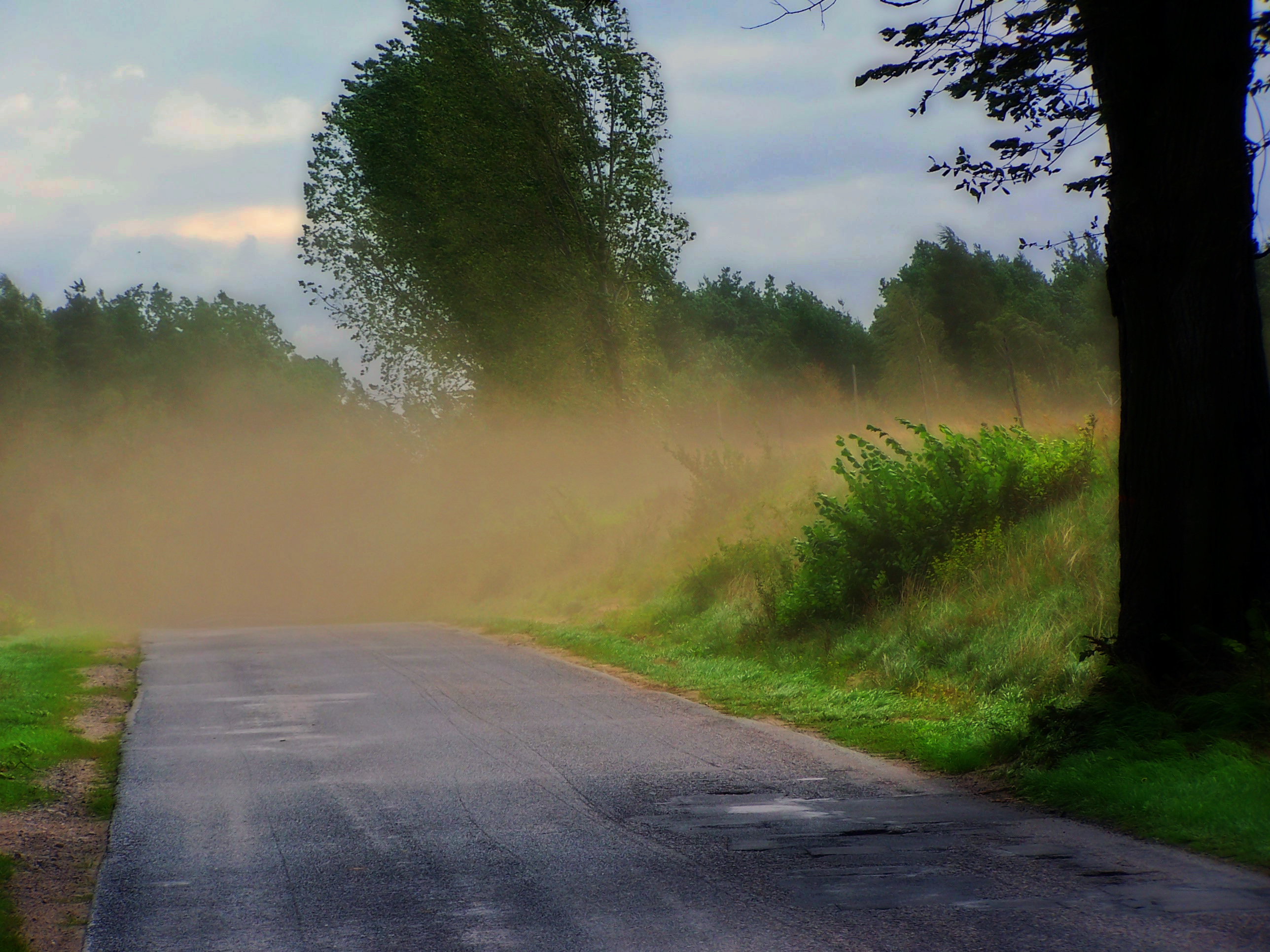 Wind